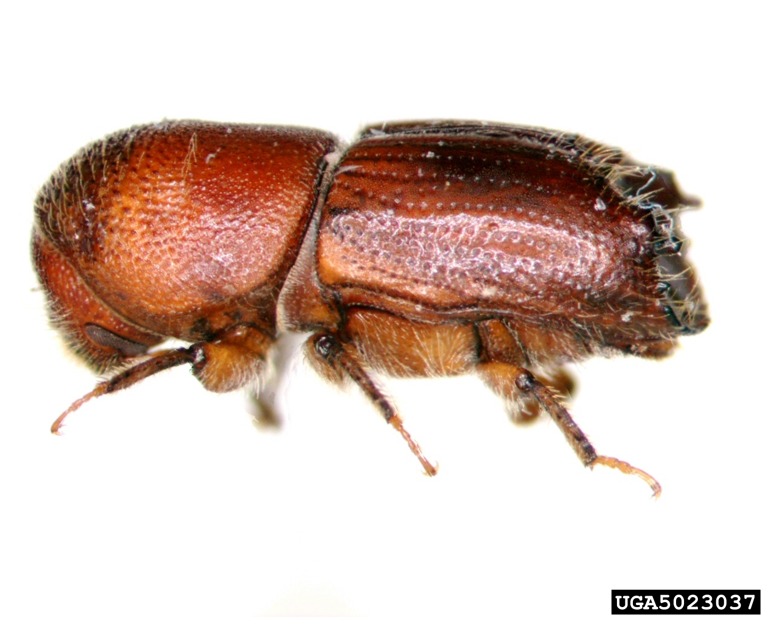 Ips pini, USA